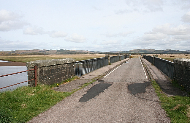 Islandadd Bridge The bridge carries the B8025 over the River Add at Bellanoch. The road crosses Mòine Mhór, the 'big moss', a classic example of the reclamation of land from the sea by natural processes.